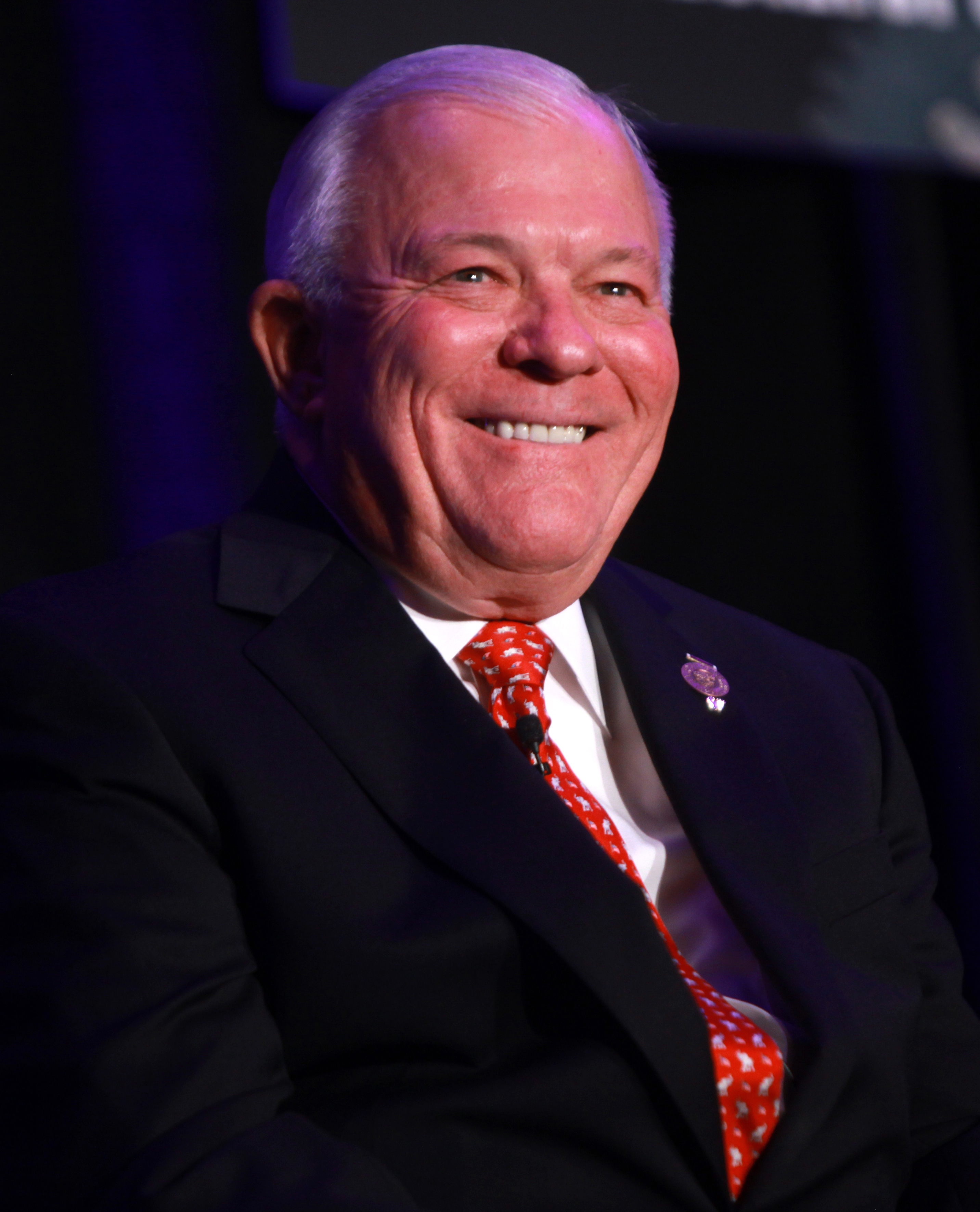 Al Melvin speaking at an event hosted by the Arizona Chamber of Commerce & Industry in Phoenix, Arizona.